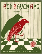 Red Raven Rag, 1915